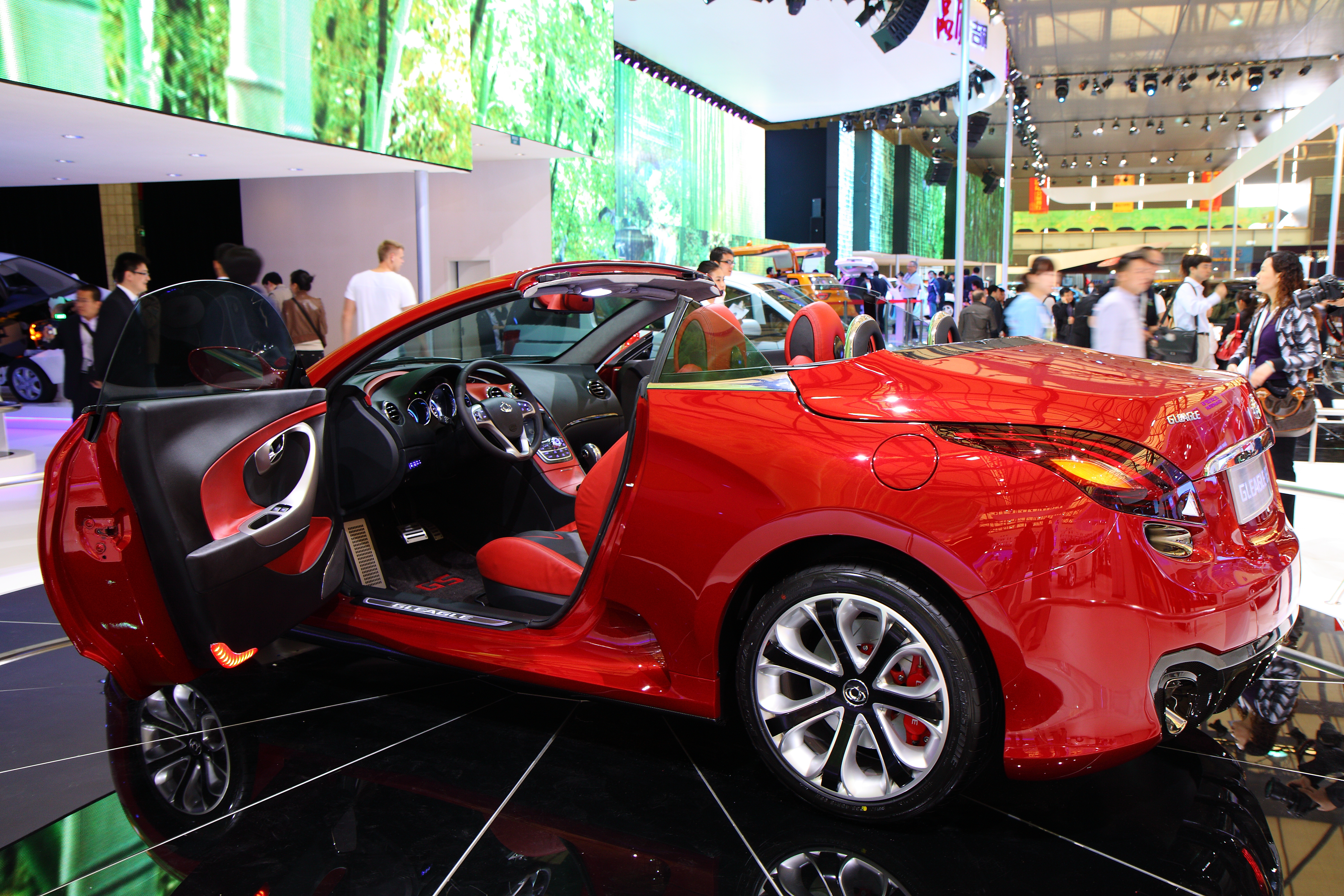 Geely Gleagle GS-CC (convertible version) concept car, in Auto Shanghai 2011.